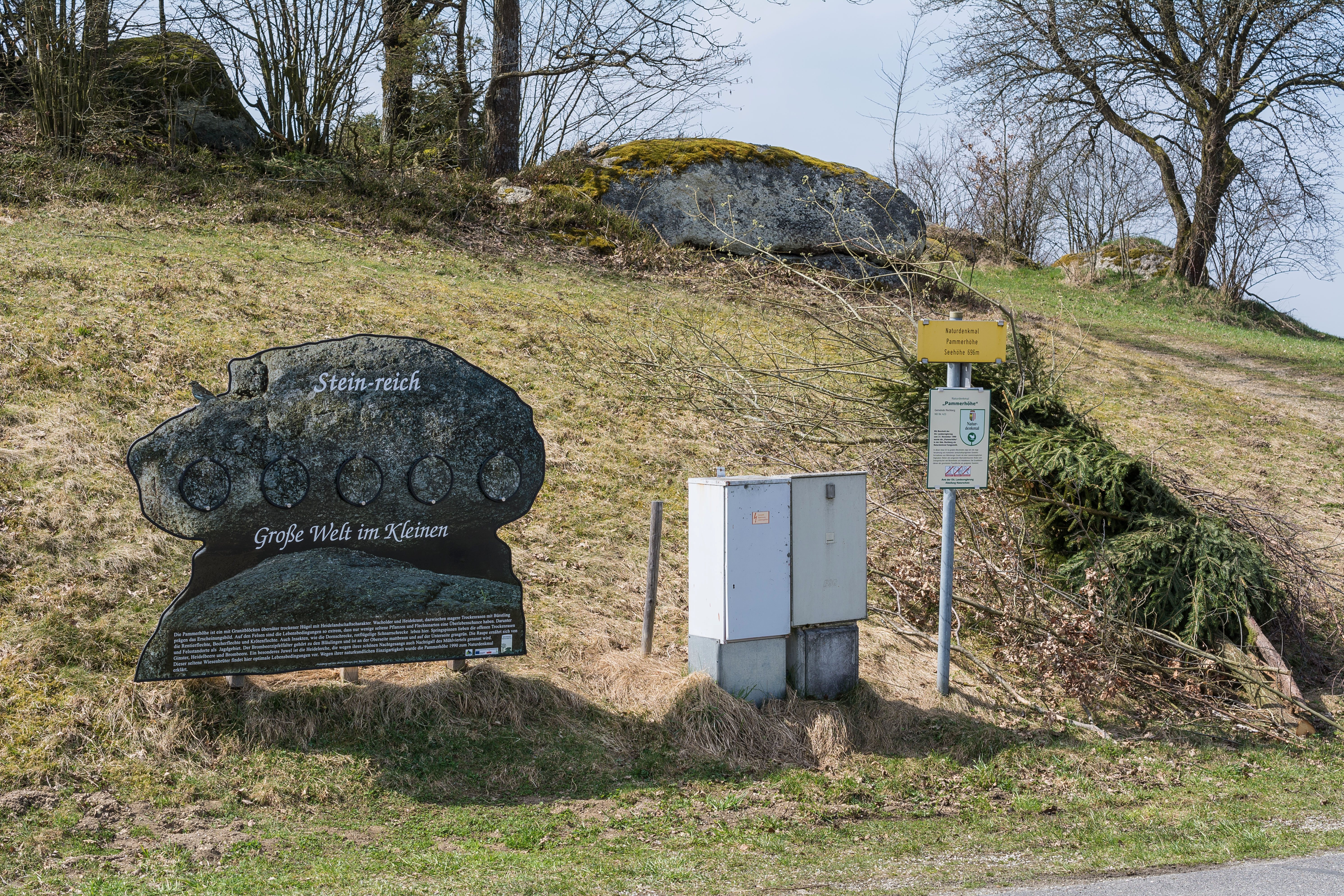 Plaque of the natural monument 423 (Upper Austria) Pammerhöhe. It is located in the community Rechberg in Upper Austria.